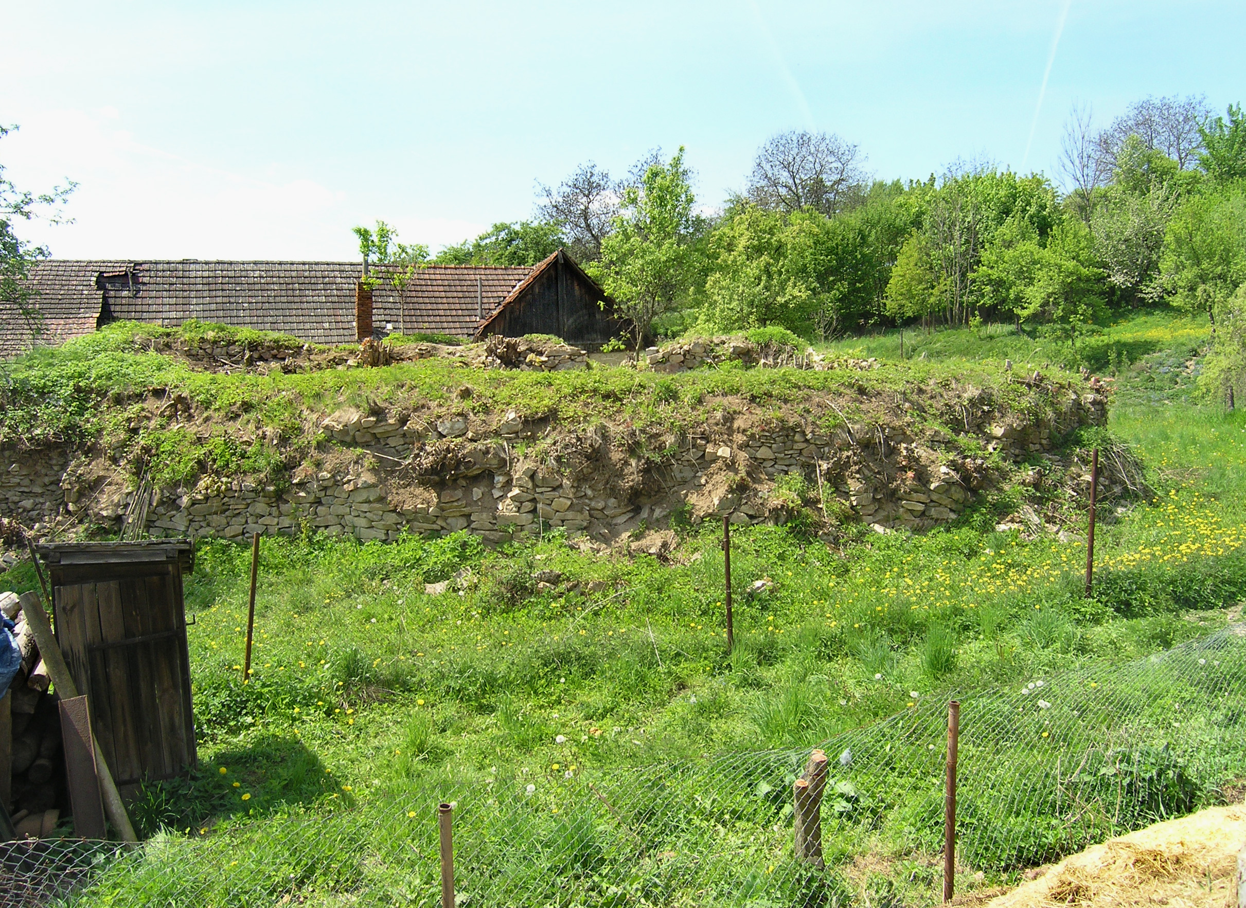 Ruins of redoubt in Martinice, part of Votice, Czech Republic